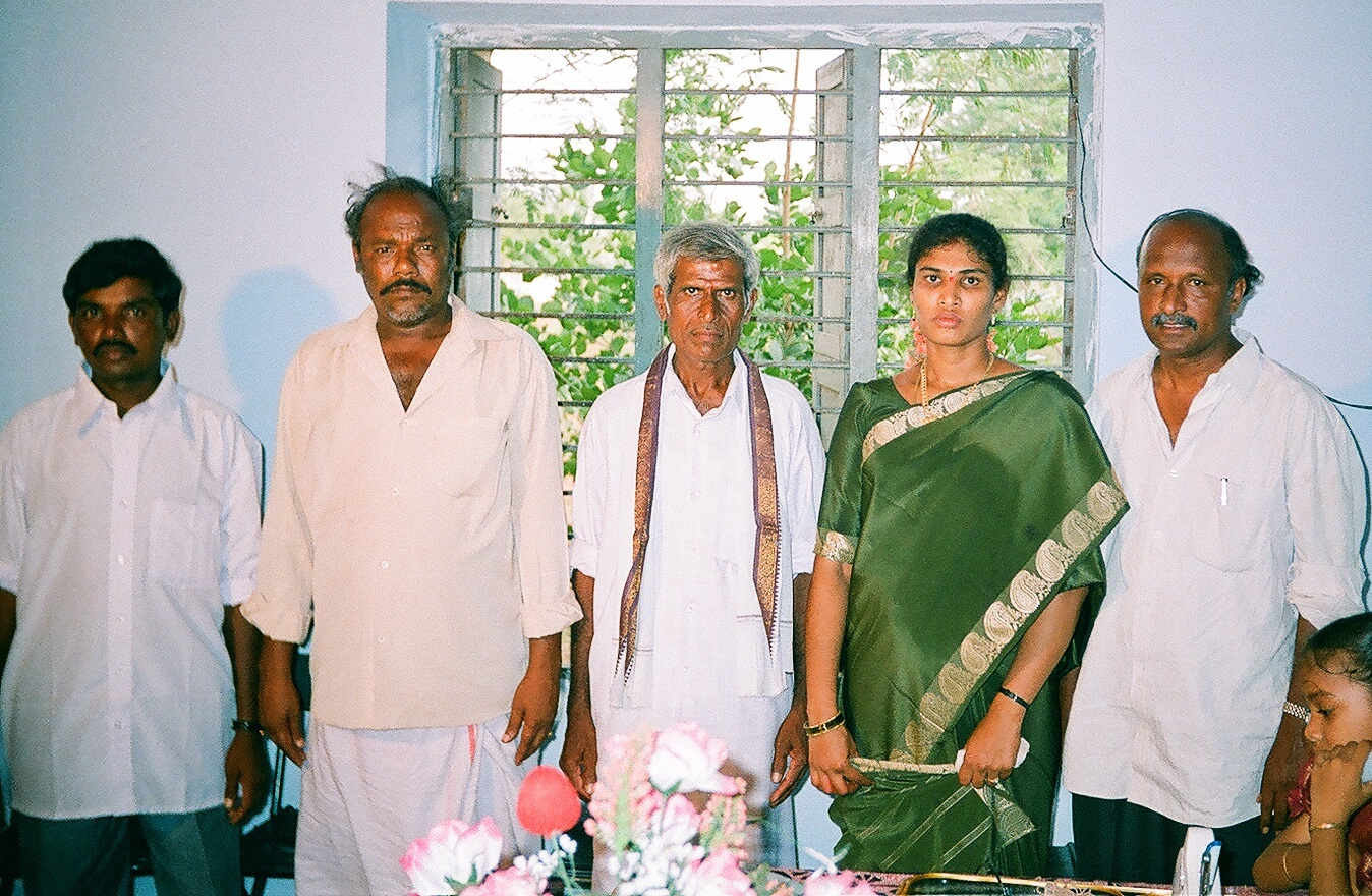 MPTC Members at Mandal Parishad Office